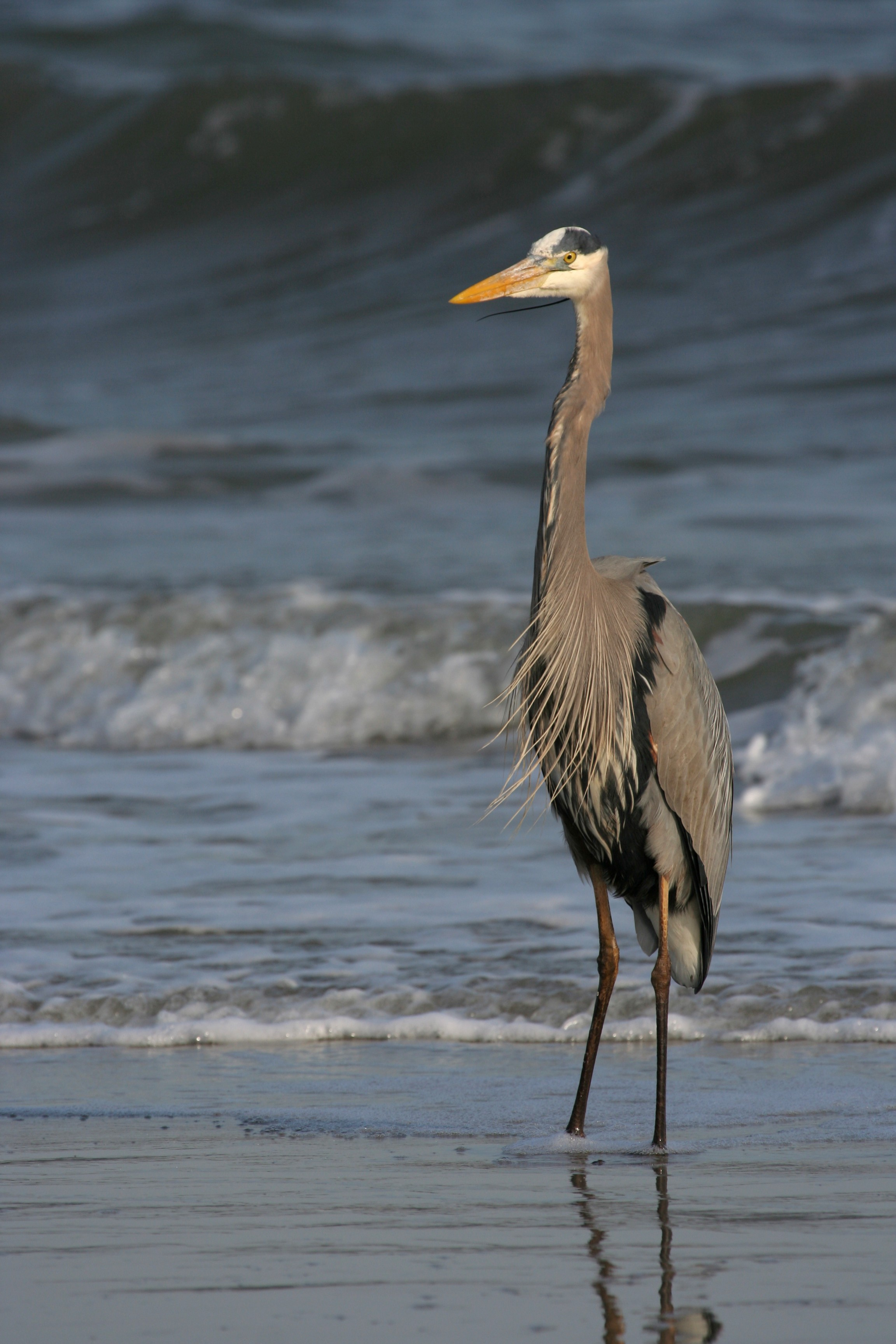 Great blue heron (Ardea herodias) on the beach of Hilton Head Island, South Carolina.